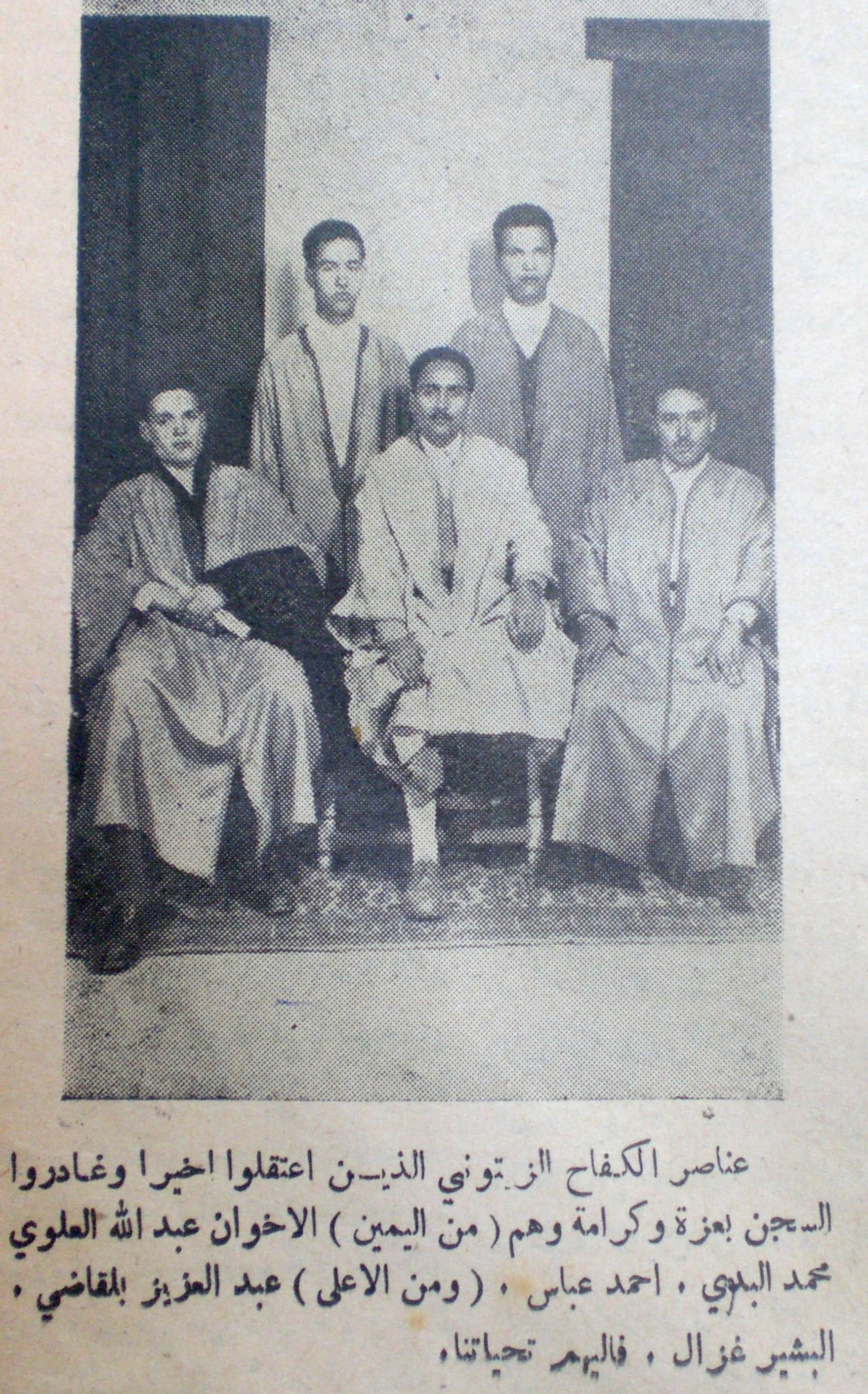 Students Leaders in Zitouna University, 1950'